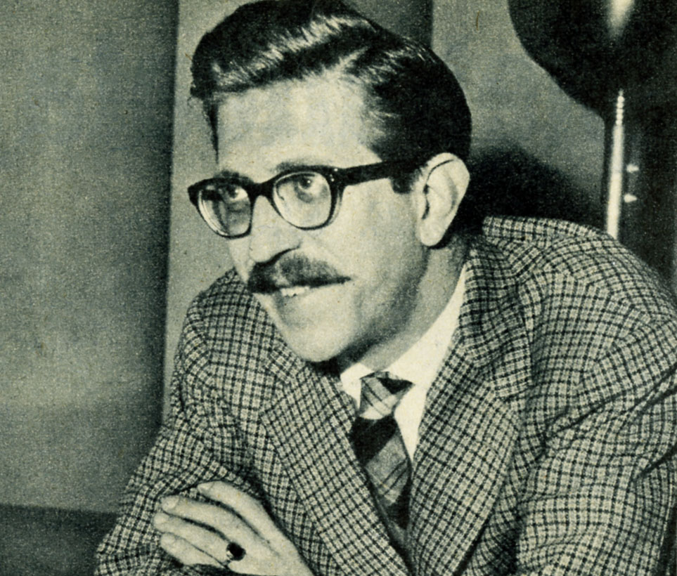 photo from the magazine Radiocorriere (1955)